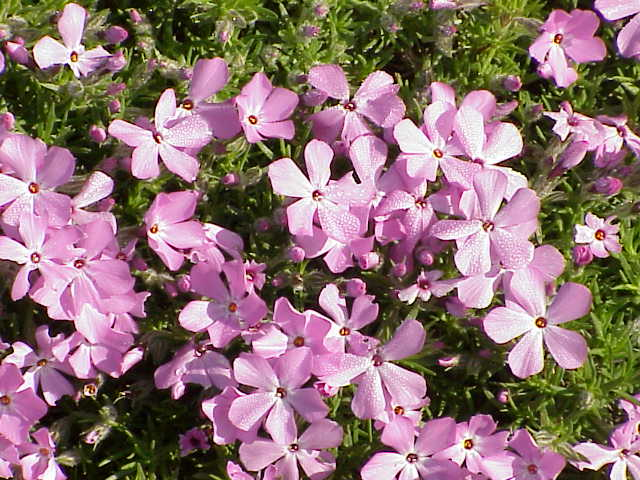 Species: Phlox diffusa Family: Polemoniaceae Image No. 1